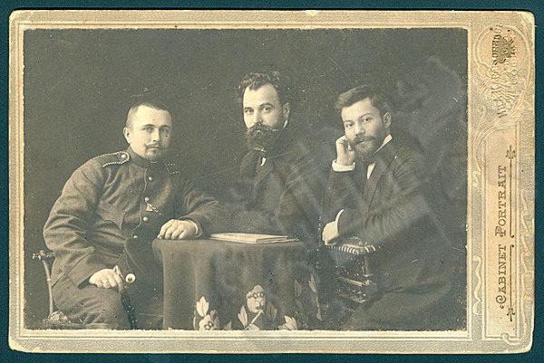 Three Bulgarian Physicians - Unknown, Ivanov and Strashimir Dochkov